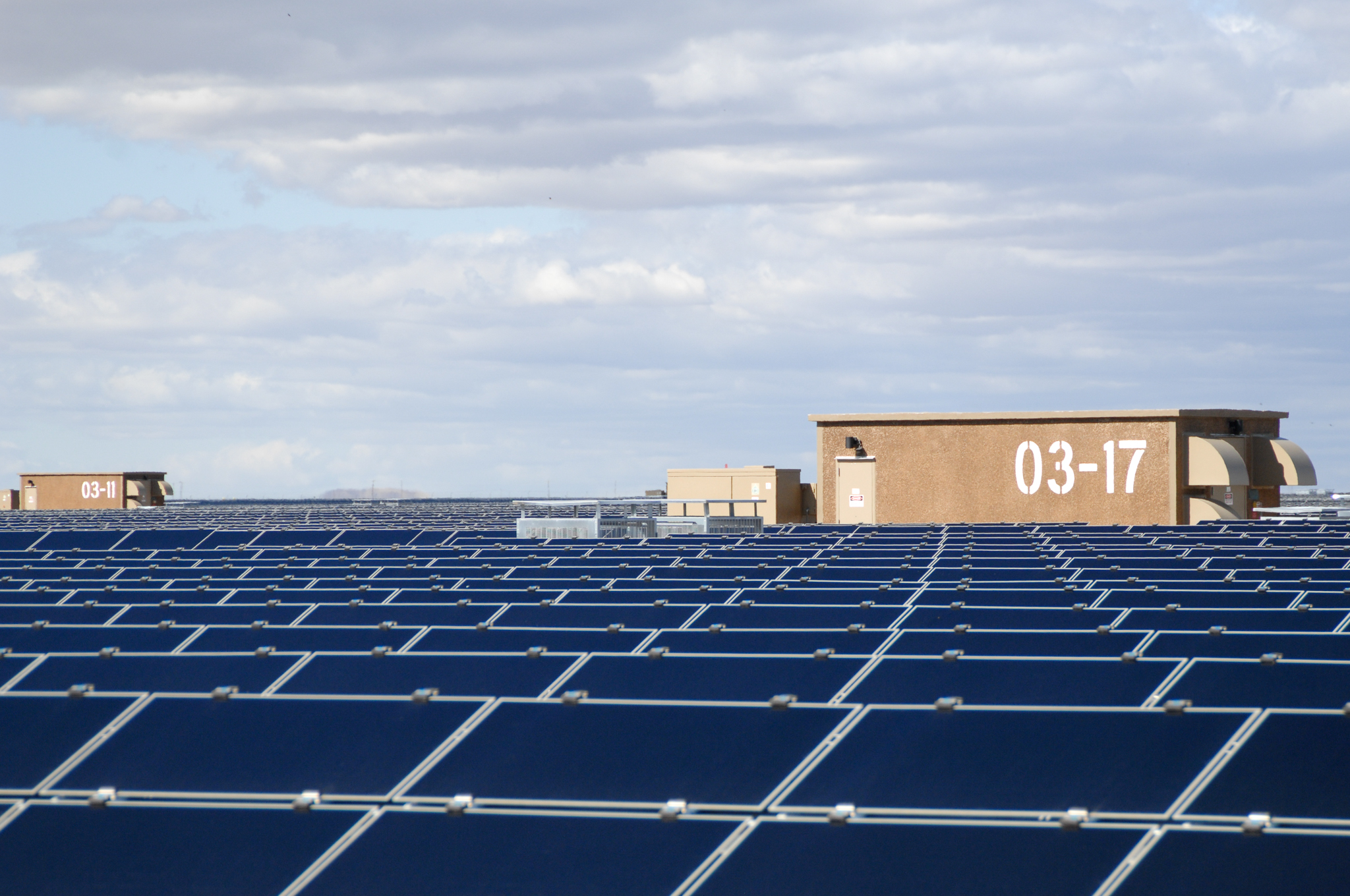 Photo Credit: Sarah Swenty/USFWS